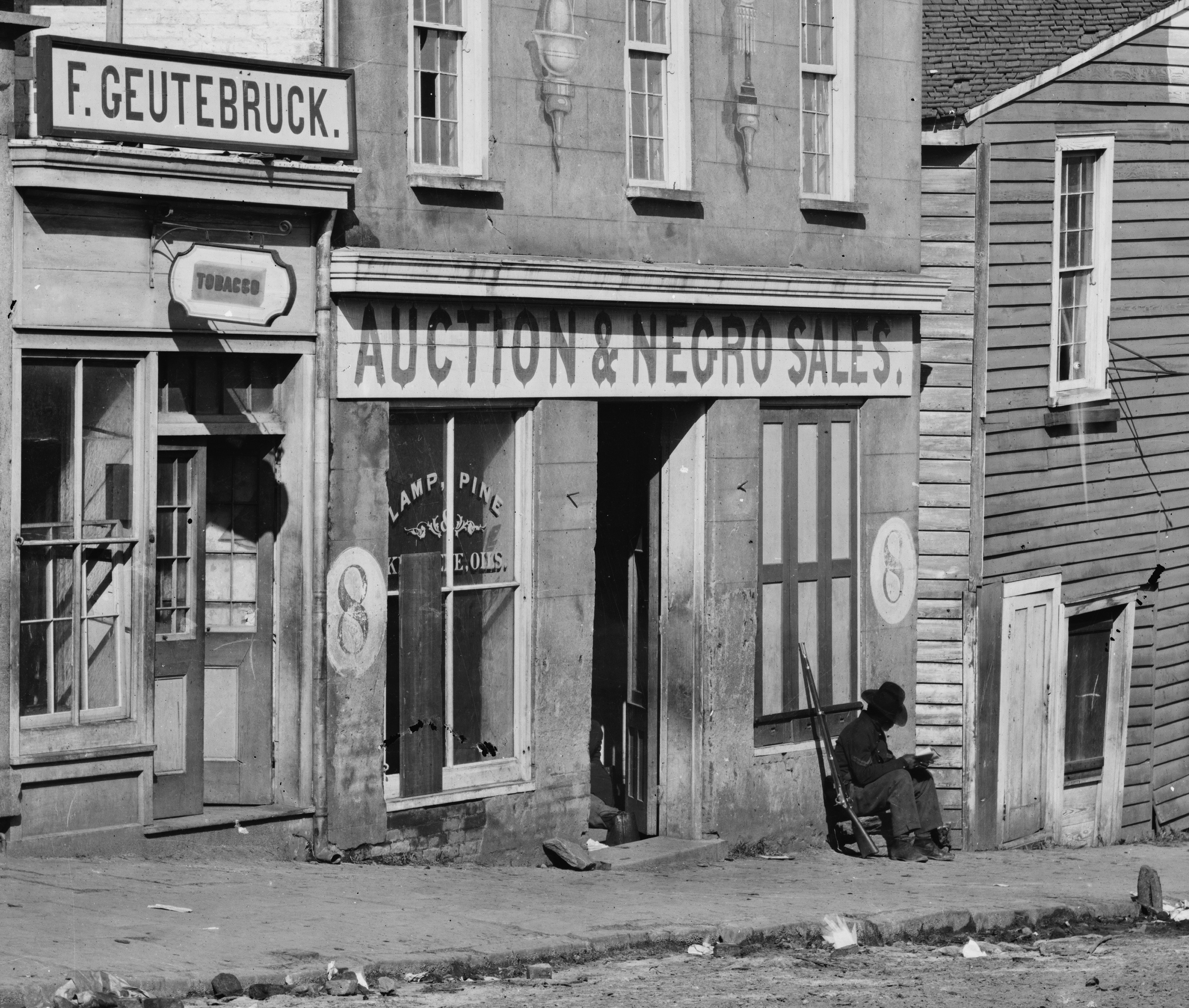 Sklaven Auktionshaus in Atlanta, Georgia.